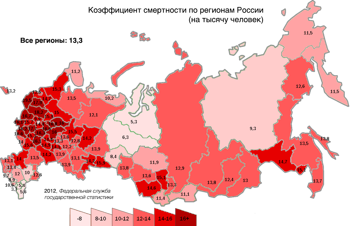 Death rates by region in 2012.